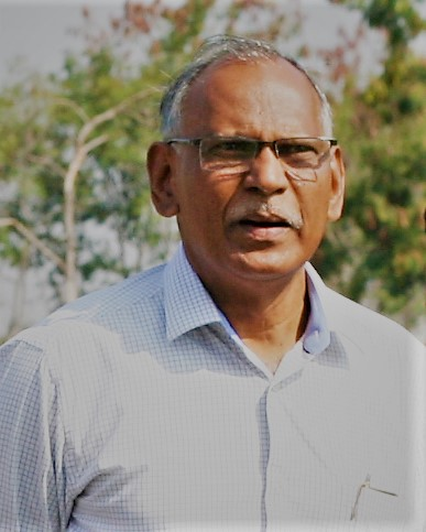 Prof. P. Judson, Indian Entomologist